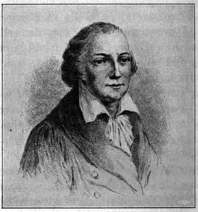 Domenico Cimarosa, Italian opera composer